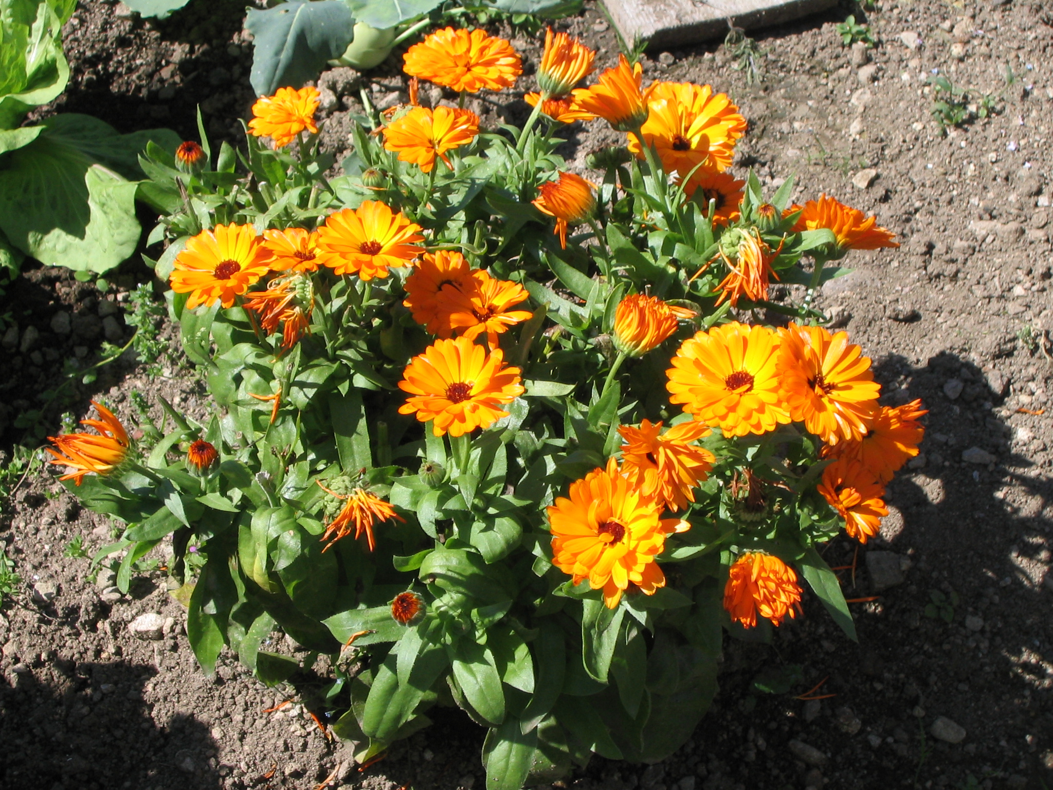 Calendula officinalis recorded in our garden in the Black Forest